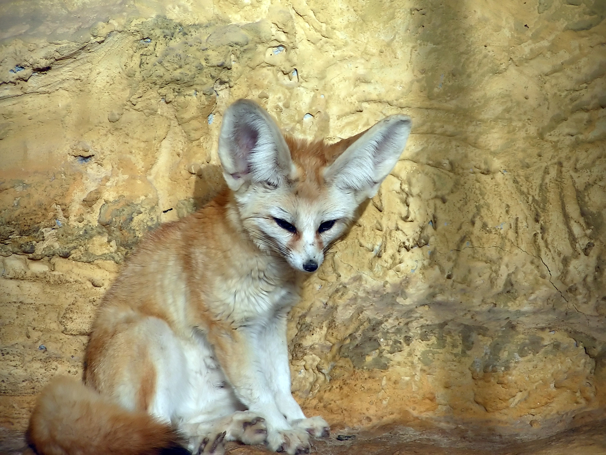 Taken in the Garden for Zoologic Research, Tel Aviv University, Israel.